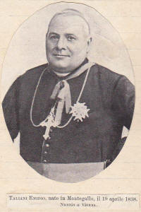 Kardinal Emidio Taliani (1838-1907), Apostolischer Nuntius in München und Wien.